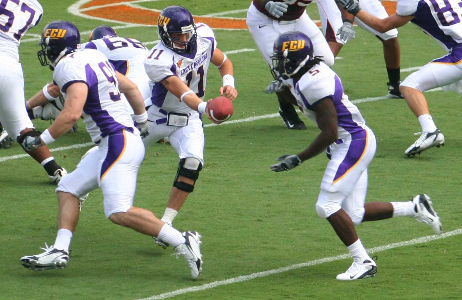 The first play of the game between Virginia Tech and East Carolina